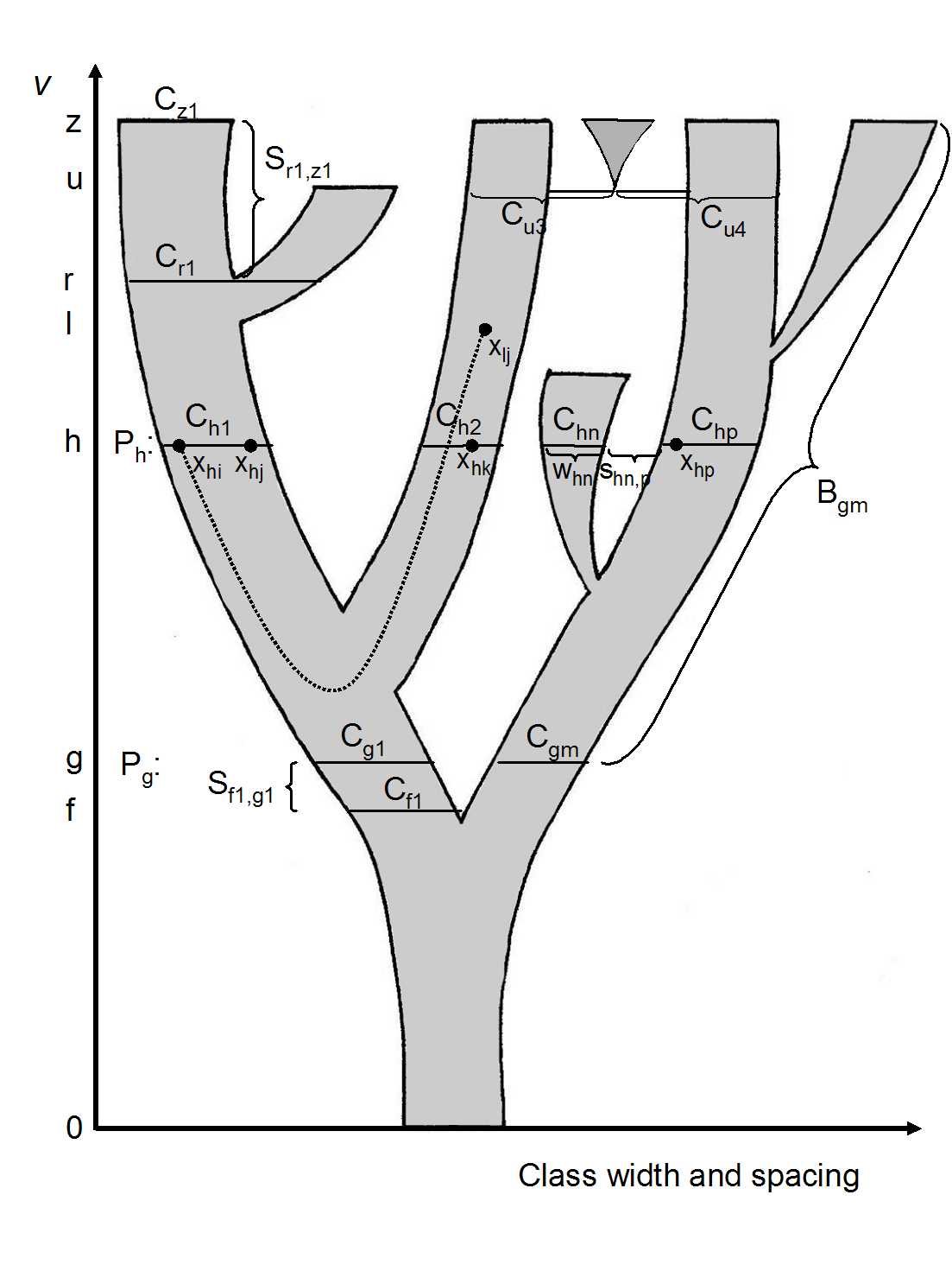 Definition of different parts of a coral.